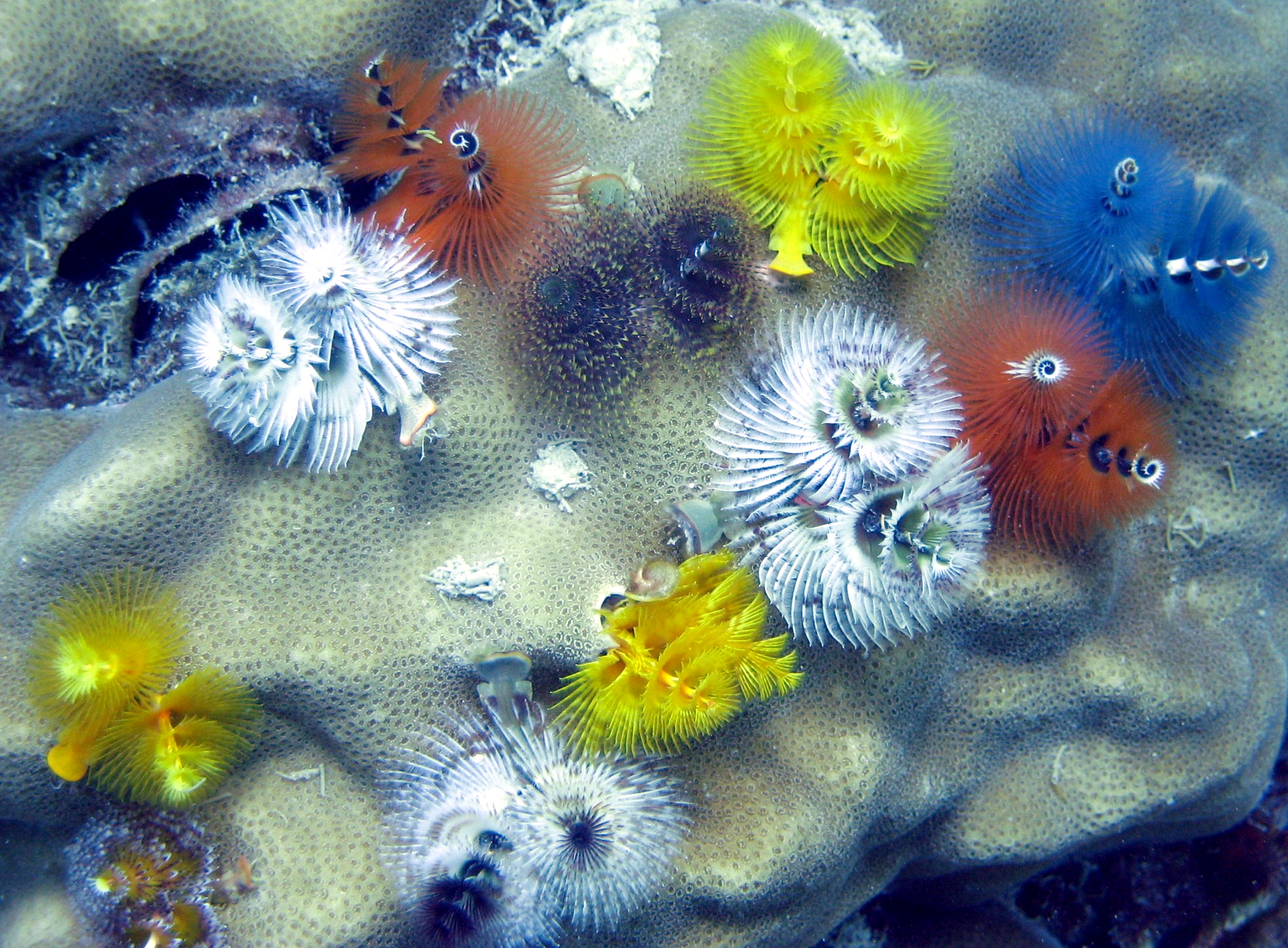 Christmas Tree Worm (Spirobranchus giganteus) from the South China Sea.